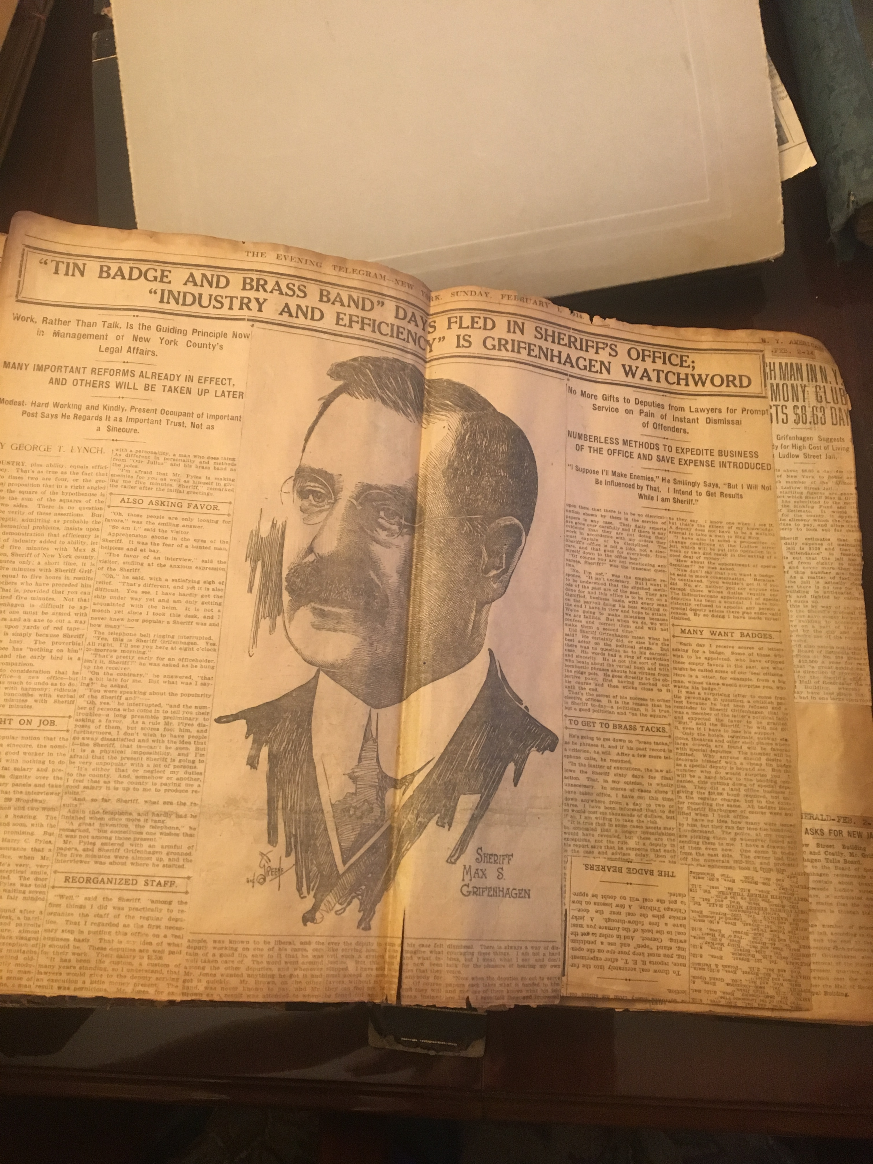 Sunday Newspaper from February 1st, 1914